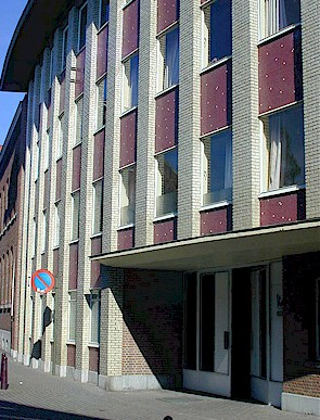 Entrance to Tienen College